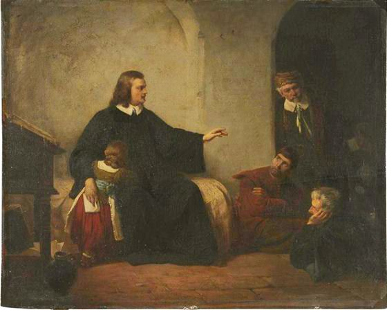 Painting entitled Bunyan in Prison by George Frederick Folingsby (1828-1891).